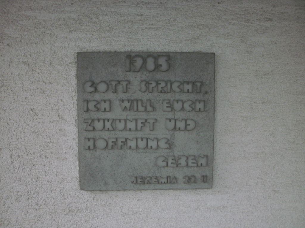 Church hall of the Mennonite church Kohlhof in Limburgerhof-Kohlhof, Rheinland-Pfalz, Deutschland